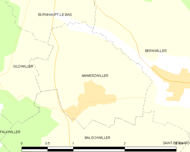 Map of French municipality